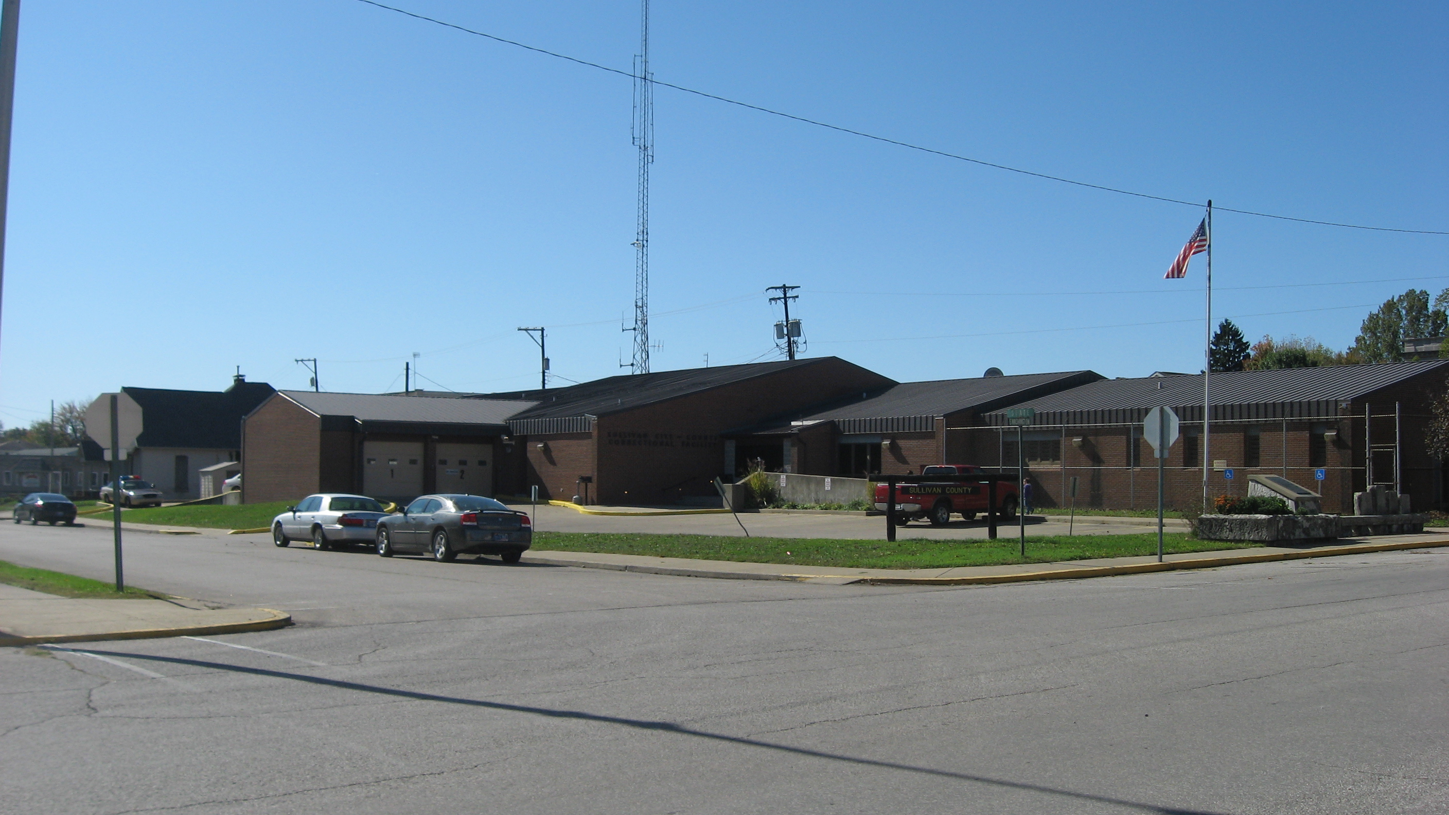 Front of the Sullivan County jail, located at 24 S. State Street in Sullivan, Indiana, United States. It was built in 1983.